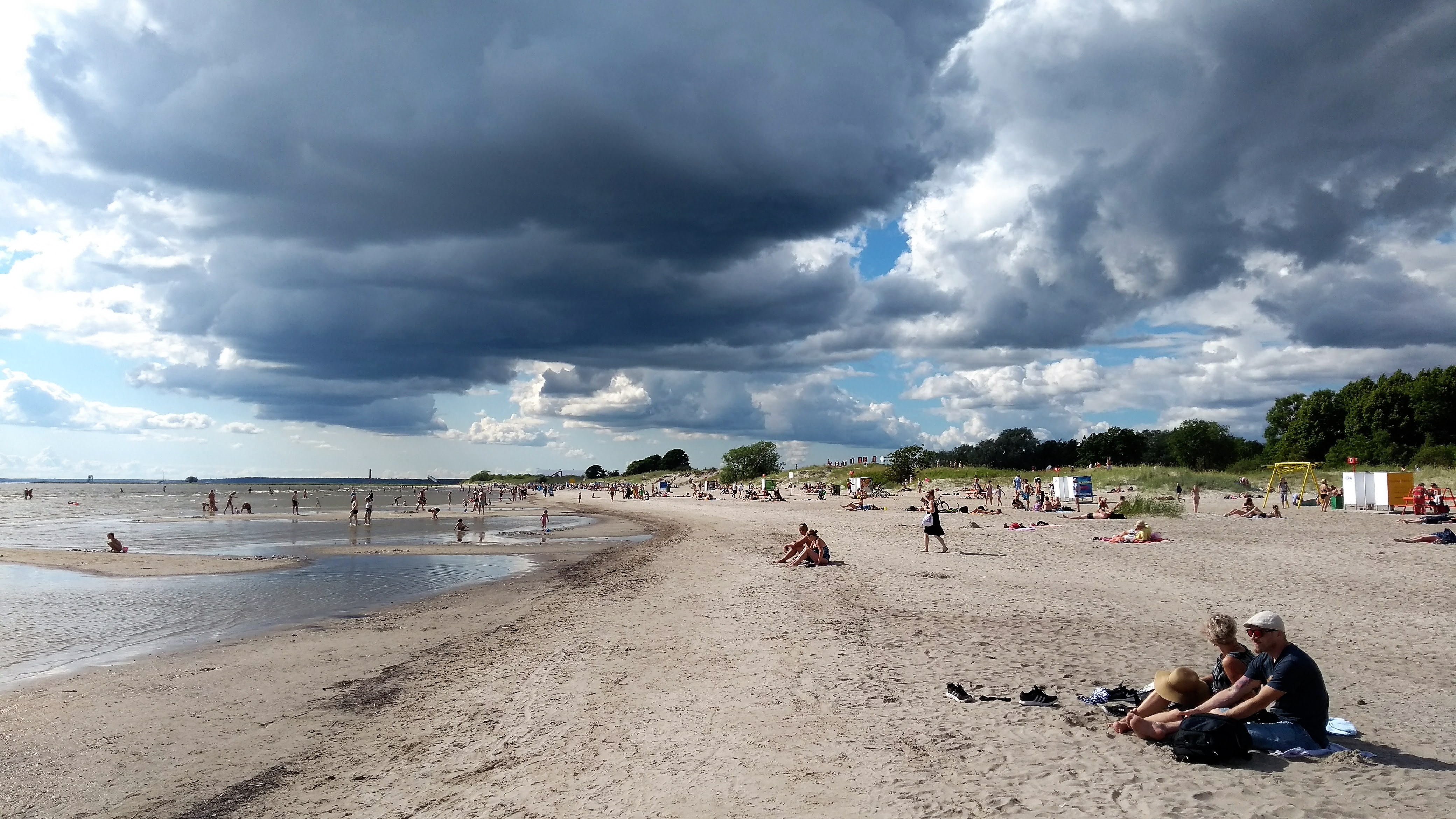 Pärnu beach in Estonia.